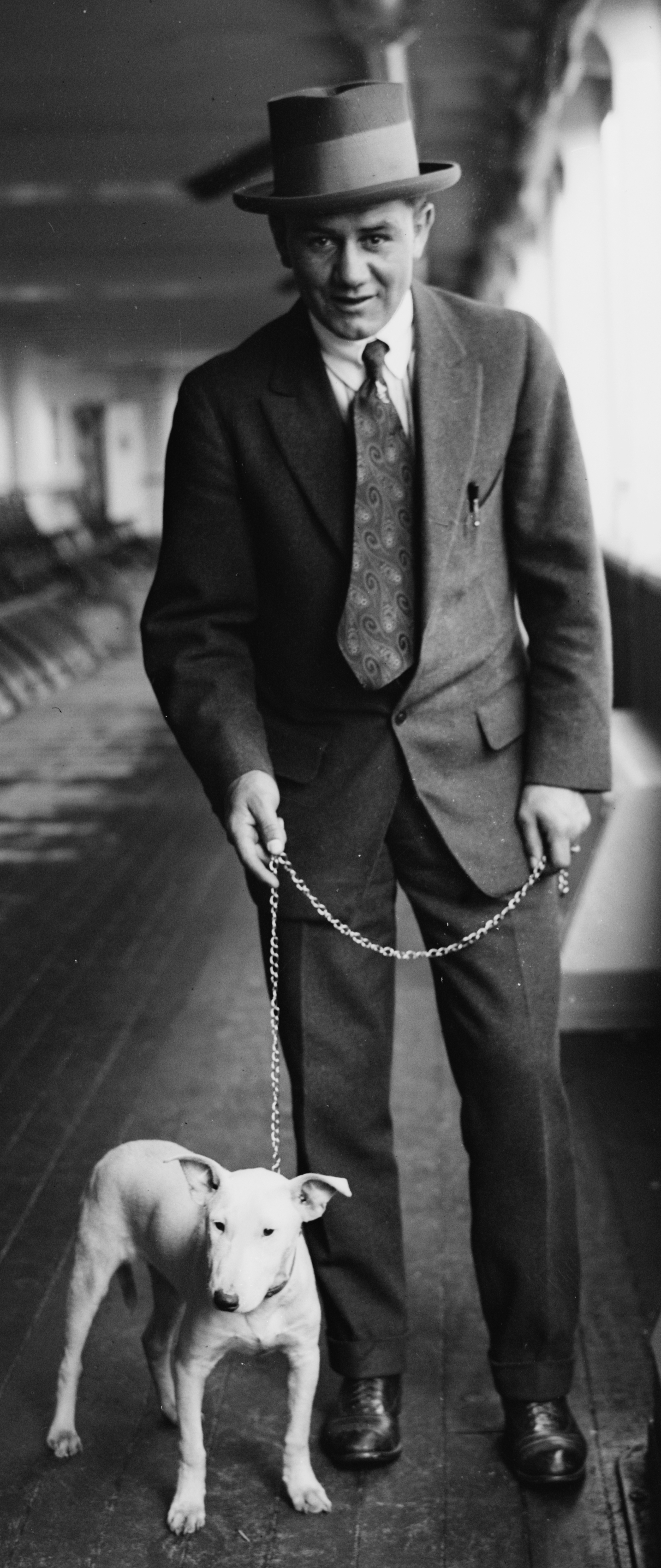 Photo of Willie Ritchie with dog. Cropped from original.